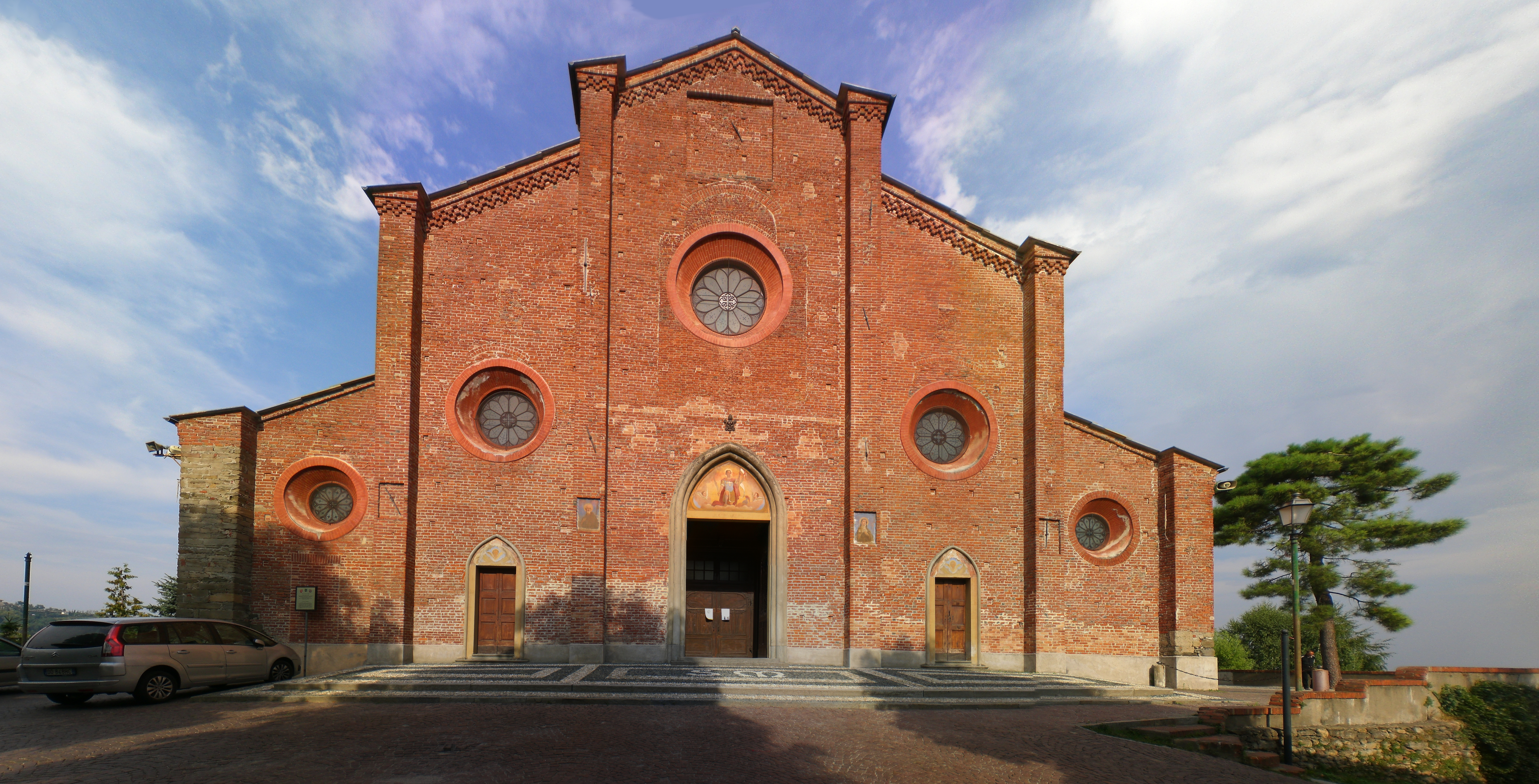 Church of San Maurizio in Pinerolo, a city near Torino in Piedmont, Italy.